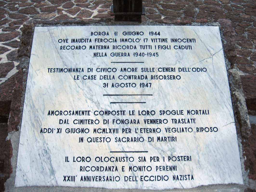 Eccidio di Borga